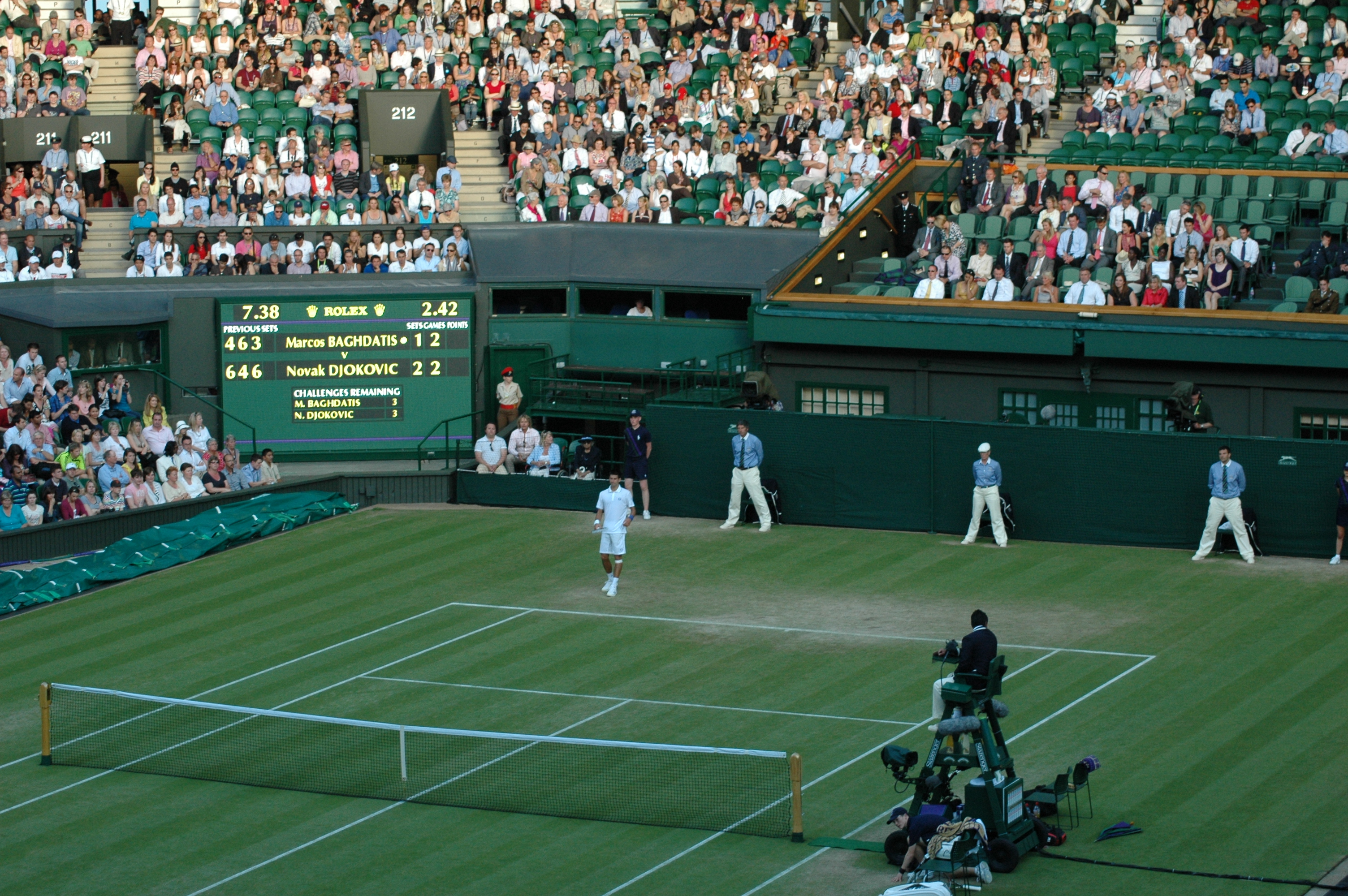 The Centre Court, Wimbledon